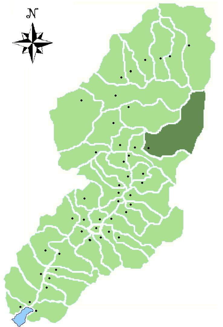 Map of the Comune di Saviore, Valle Camonica